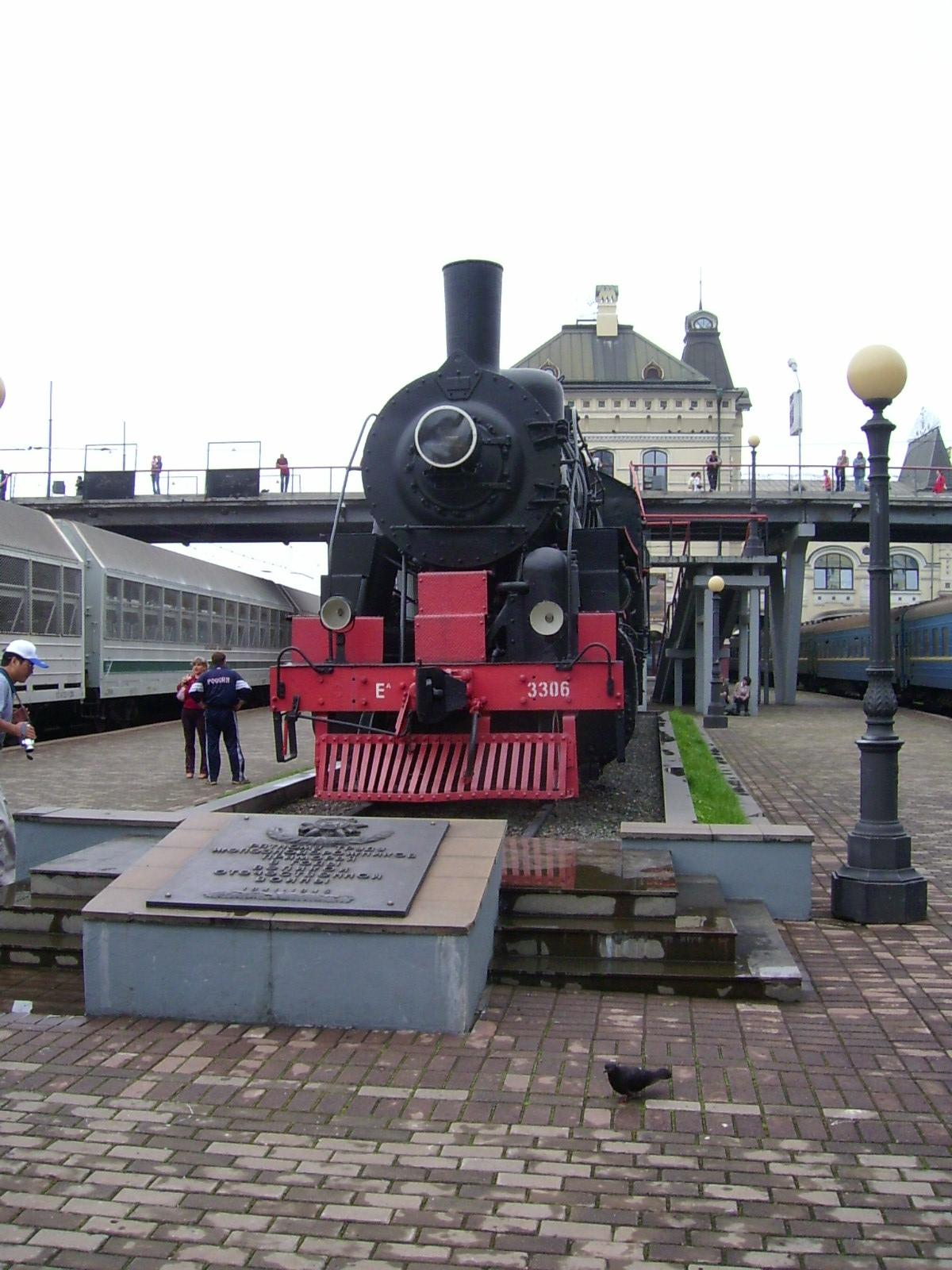 Trans-Siberian railway Terminal in Vladivostok, Steam Locomotive Ea-3306